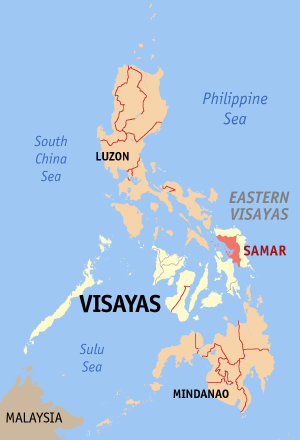 Map of the Philippines showing the location of Samar